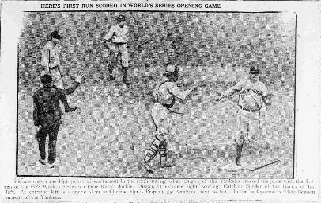 newspaper photo showing the first run scored in the 1922 World Series